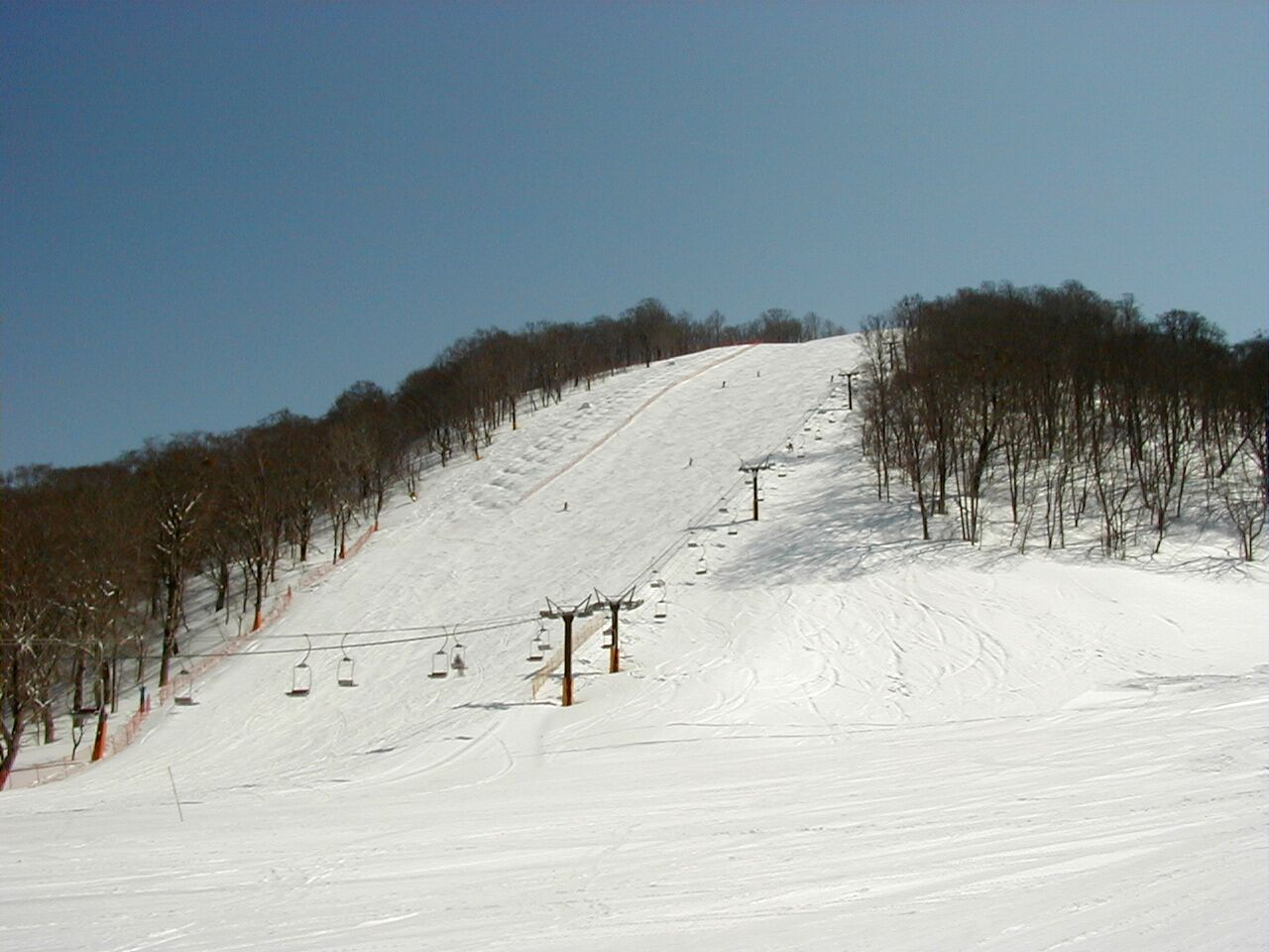 La Foret Centre course at the Urabandai Nekoma Snow Park & Resort in Fukushima Prefecture, Japan